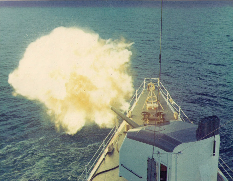 USCG Cook Inlet conducts a close fire support mission while in service off the coast of Vietnam in 1971.